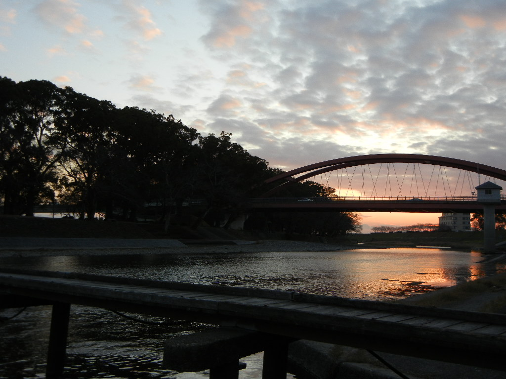 Gatagata-Bridge_Chikugo_Fukuoka. 福岡県筑後市の船小屋温泉にあるガタガタ橋と国道209号線の新船小屋大橋, Chikugo.